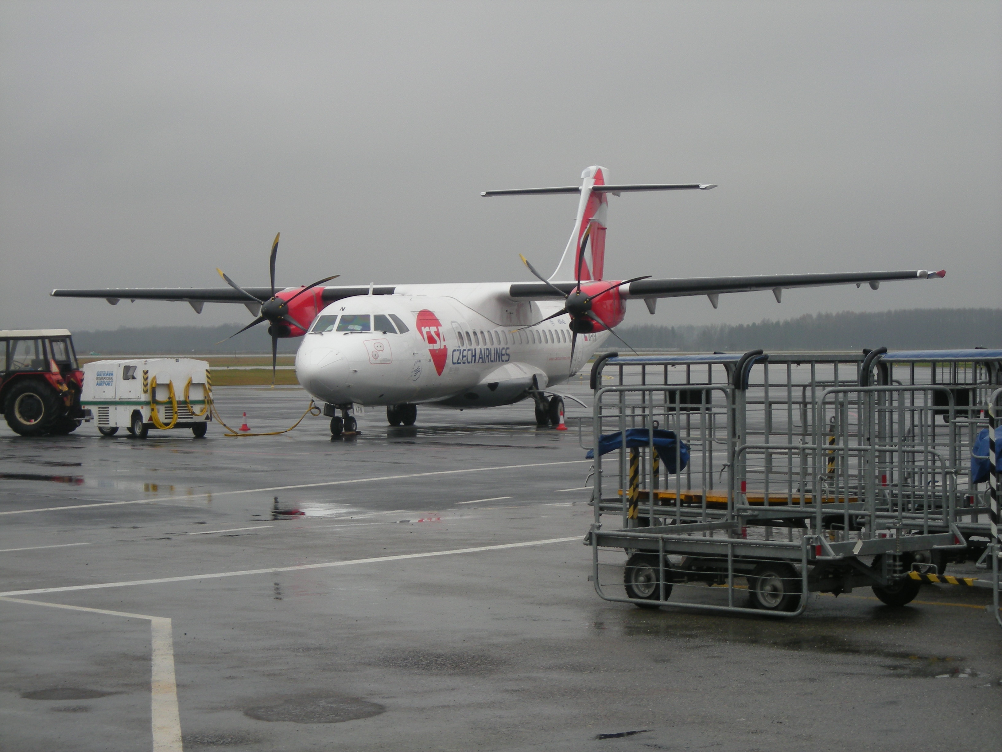 ATR42-500 plane of CSA Czech airlines on OSR intl airport.